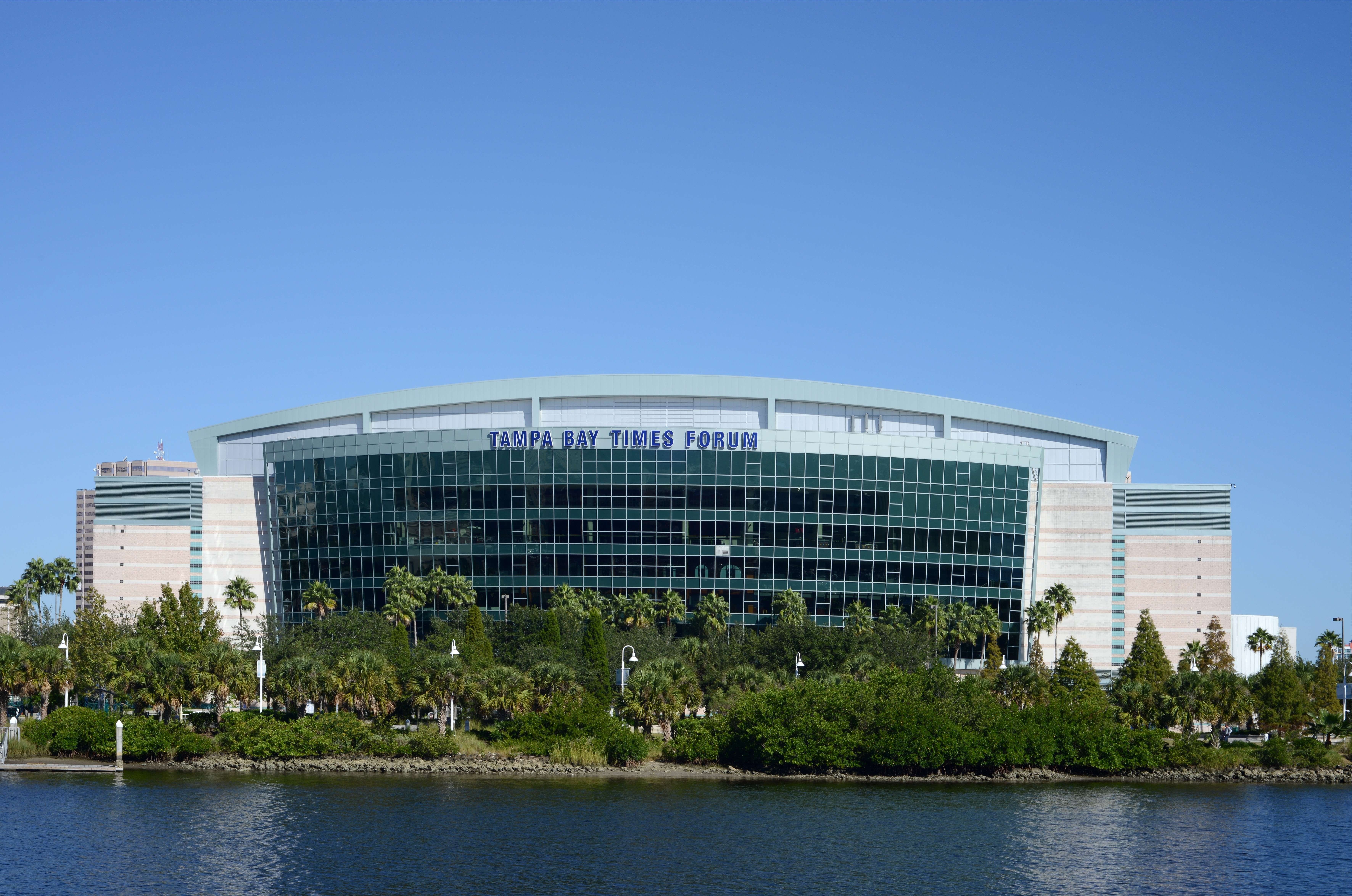 The Tampa Bay Times Forum, Tampa, Florida